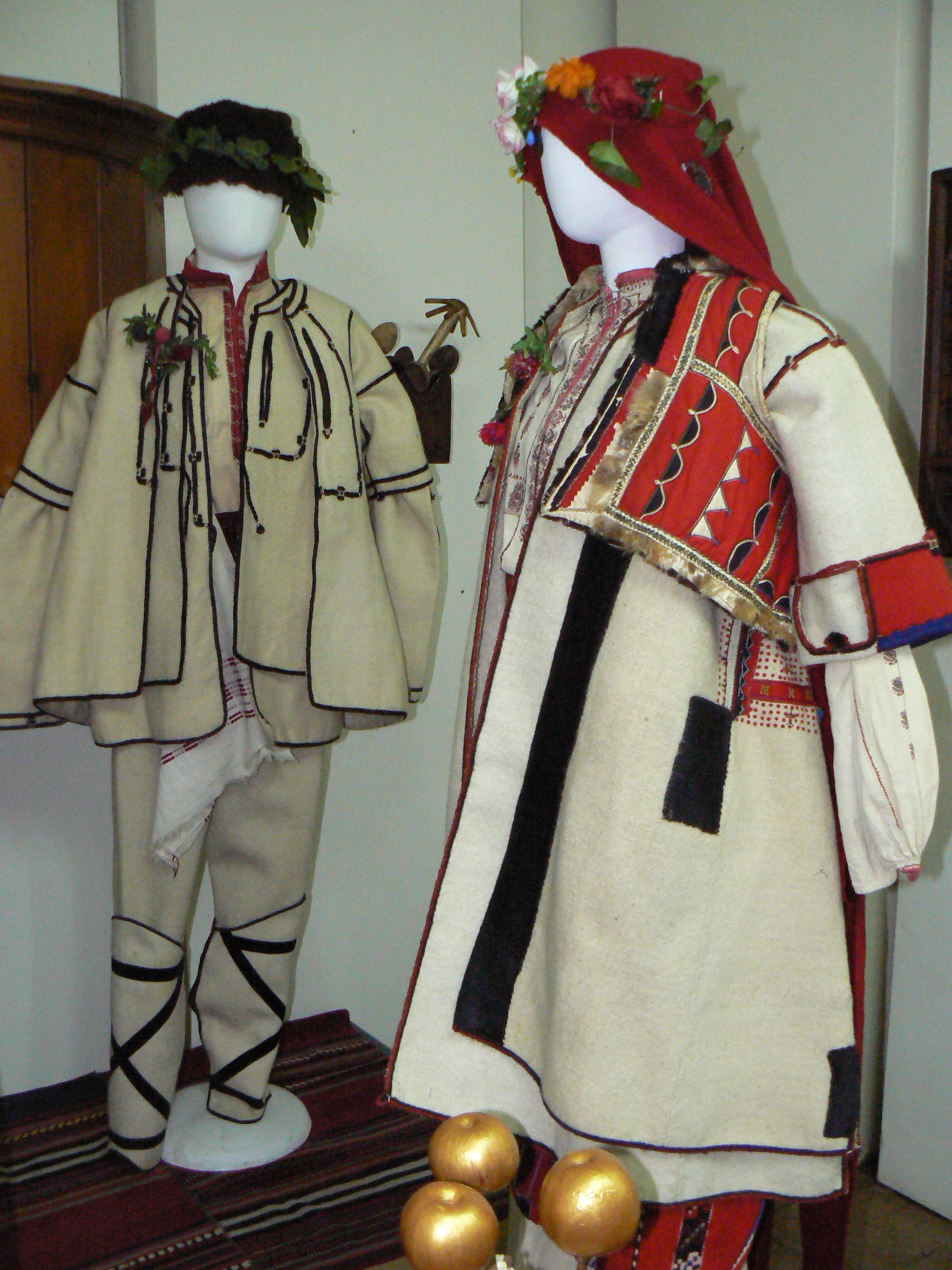 Bulgarian folk costumes, exhibits of the National Ethnographic Museum (North-West Bulgaria)